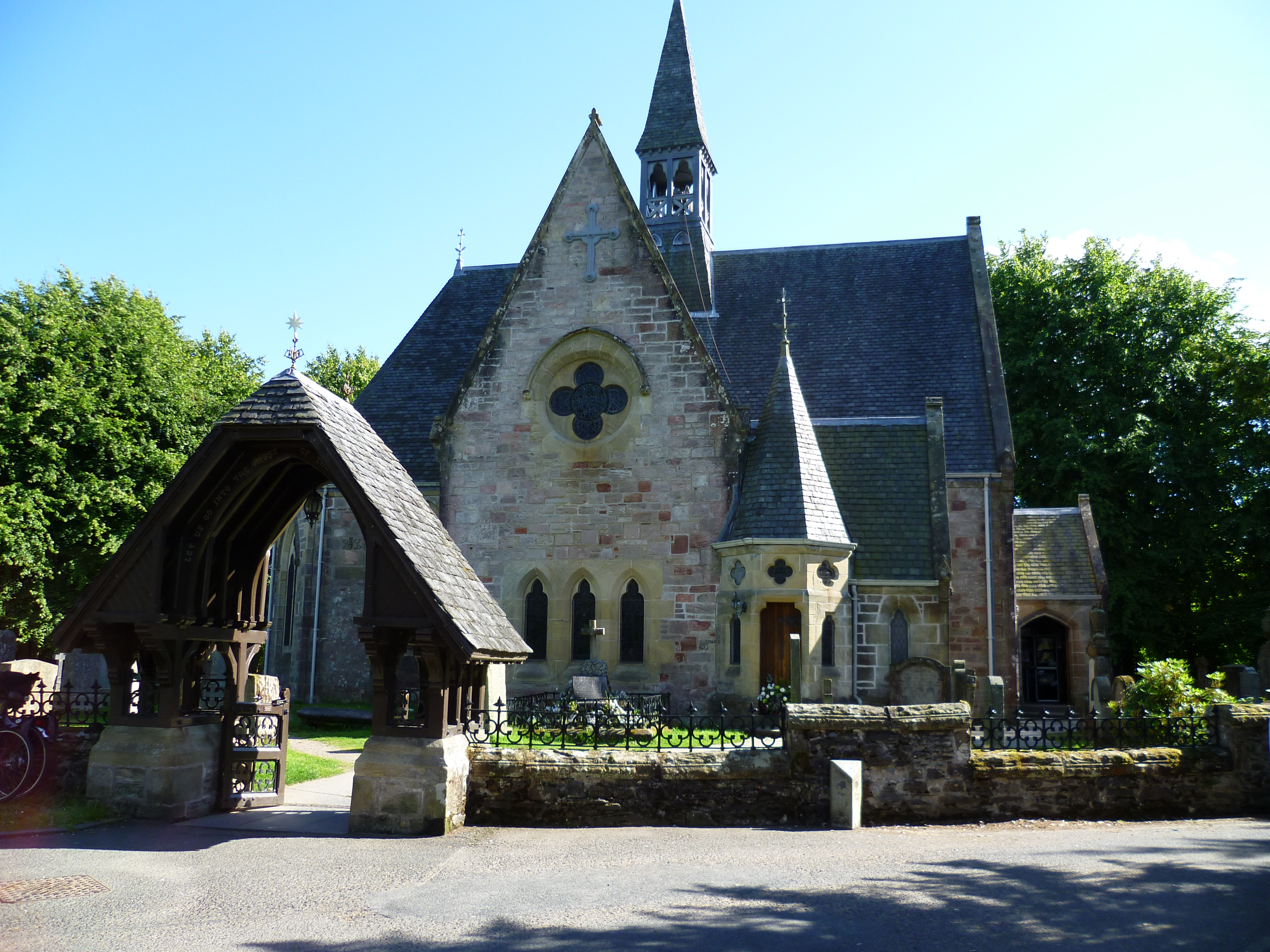 Luss parish church, front view, 15 August 2010.